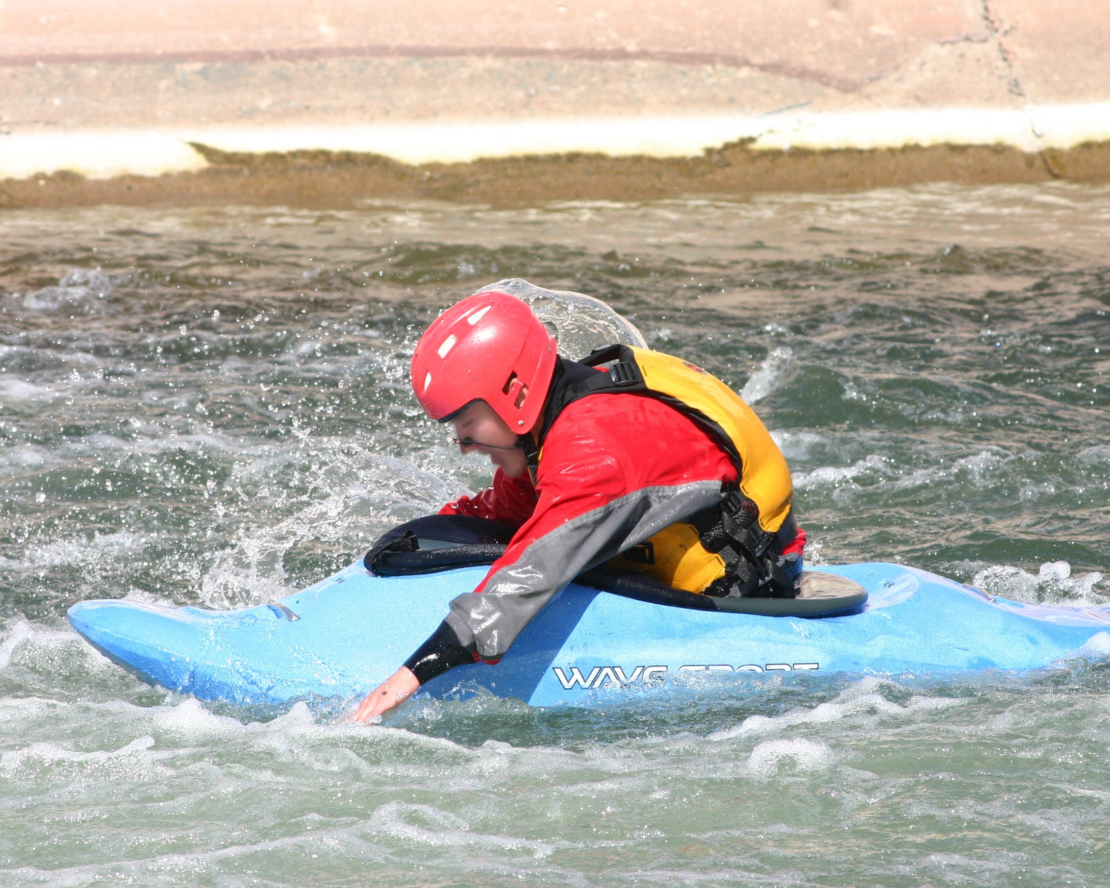 Kayaker paddling with his hands in Pueblo, Colorado, USA